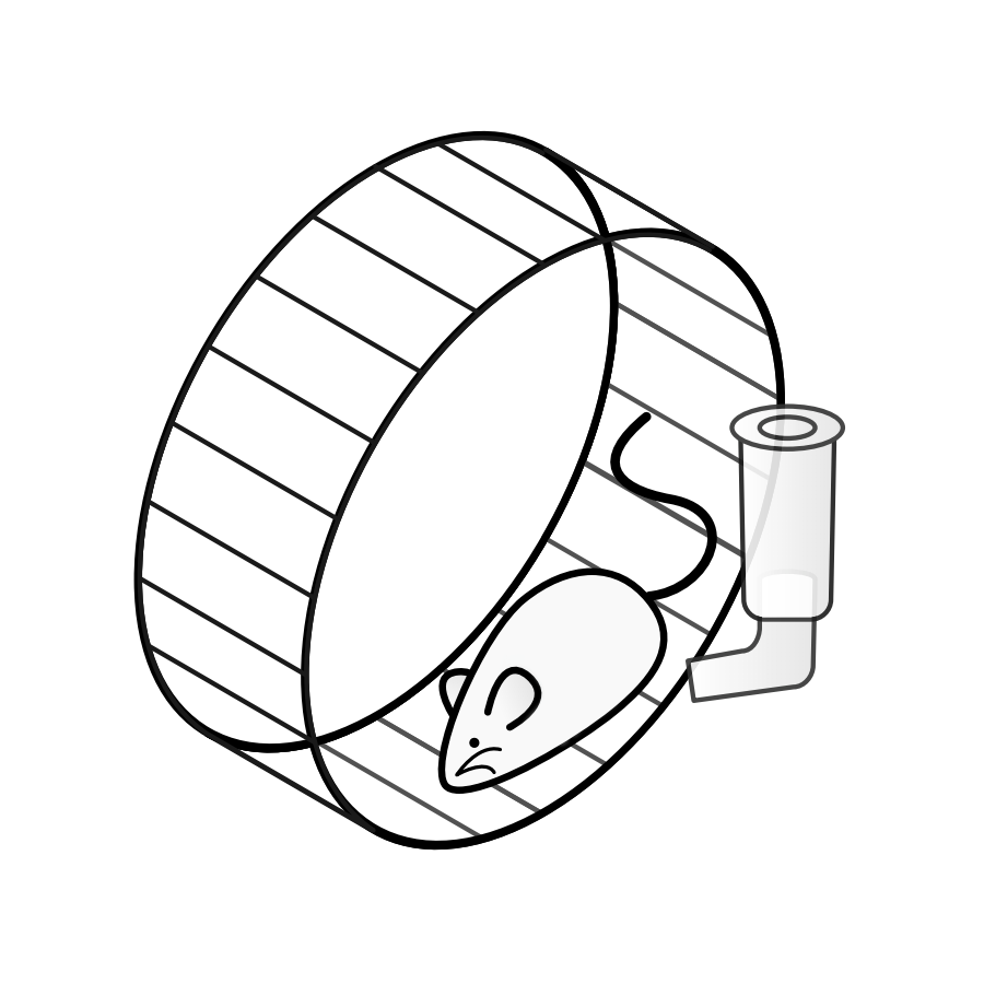 An sketch of the apparatus used by David Premack in 1971 for a behavioural experiment to prove the Premack's principle.